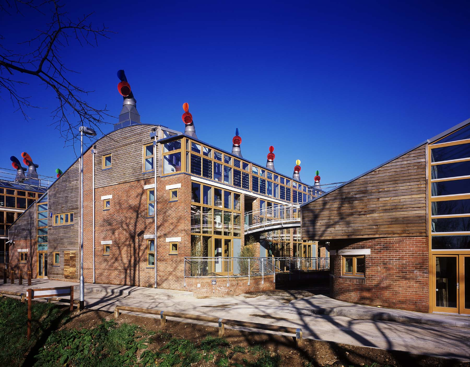 Completed by Peabody in 2002, BedZED was designed to be the UK's first 'carbon neutral' housing development. The scheme has won a number of awards, including the Energy Globe Award 2002 in the Building and Housing Category, the Housing Design Awards 2000, and the 2003 RIBA award. It was also shortlisted for the Stirling Prize 2003, and received the Building for Life Gold Standard in 2004.